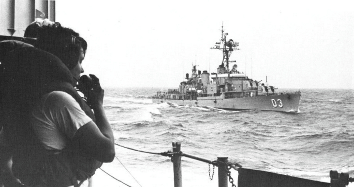 The Colombian destroyer ARC Santander (DD-03) underway alongside the U.S. navy guided missile cruiser USS Belknap (DLG-26) during the exercise UNITAS XV, in 1974. ARC Santander was originally commissioned in the U.S. Navy as USS Waldron (DD-699).